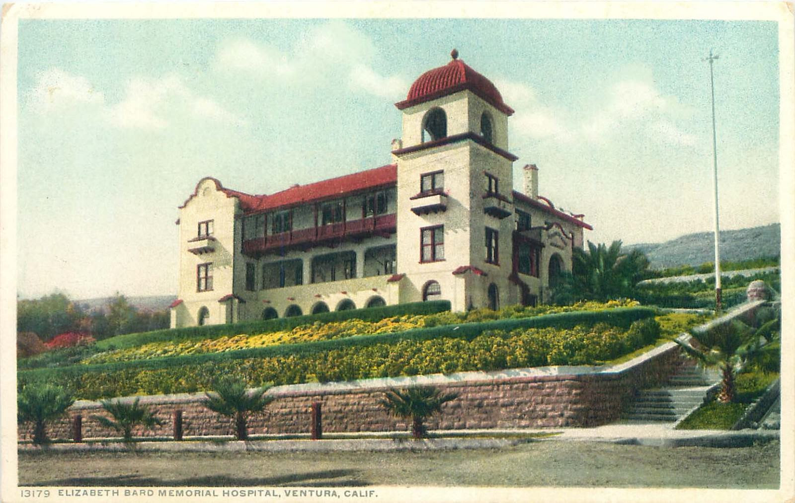 Photostint card of Elizabeth Bard Memorial Hospital, c. 1910